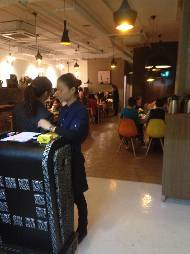 Japanese restaurant in industrial building (probably in Kwun Tong)